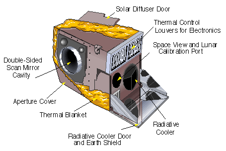 The MODIS sensor